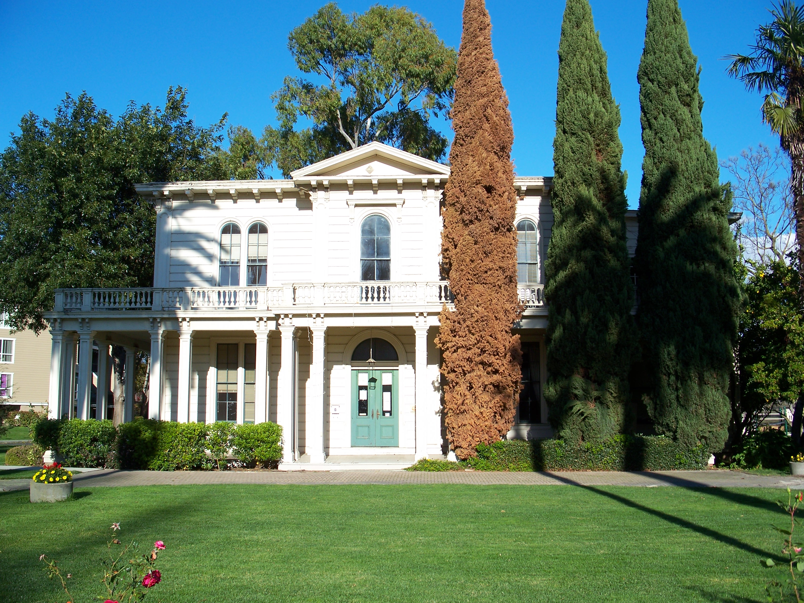 James Lick mansion. 554 Mansion Park Drive. Santa Clara, California, USA More details about subject